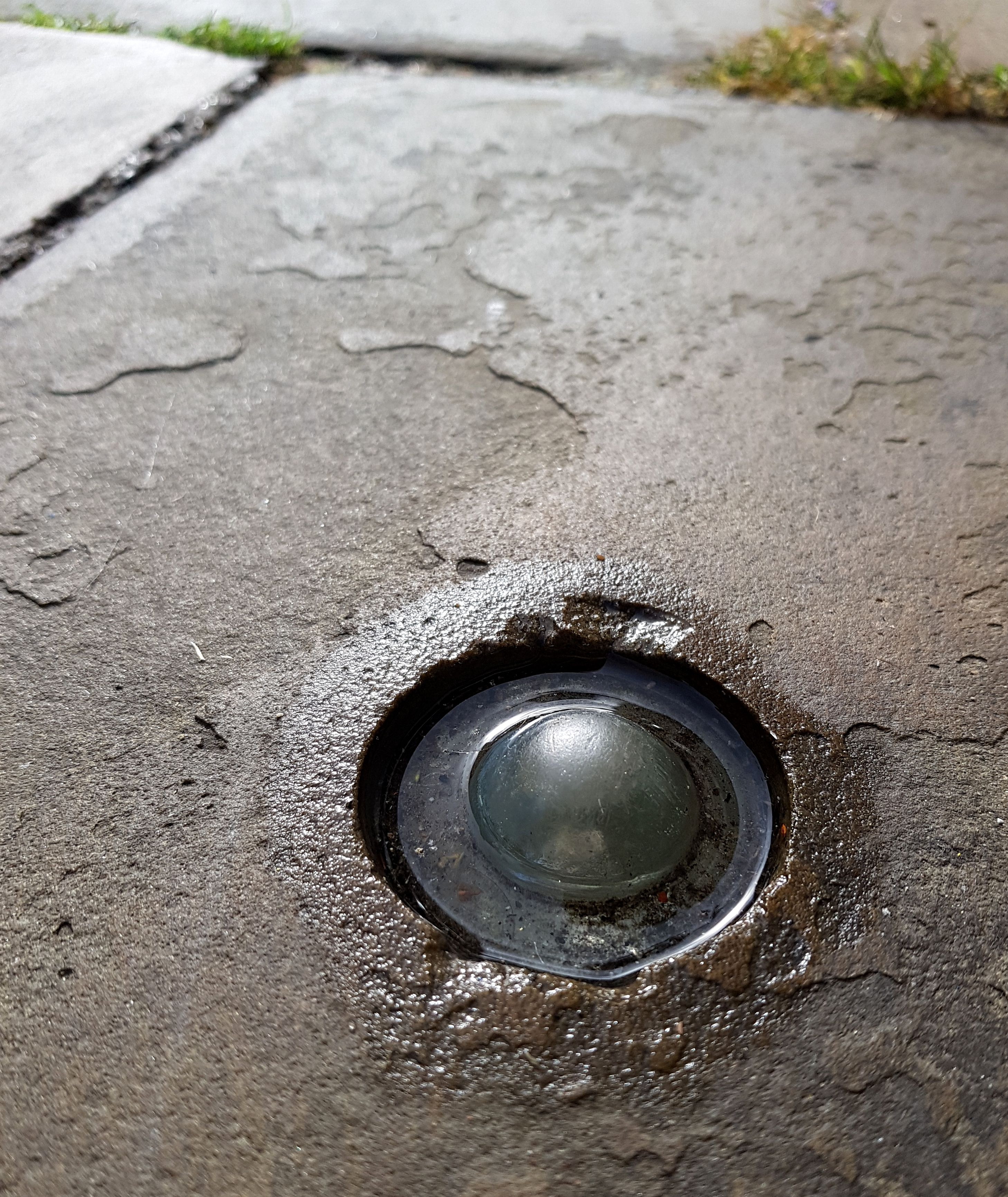 A glass stud in York sidewalk. Such glass studs are the remnants of the York Breadcrumbs trail, an initiative from 2005 which incorporated three custom walking tours and (now defunct) website. The tours included the Minster, the Shambles, the Guildhall etc. with a story thrown in